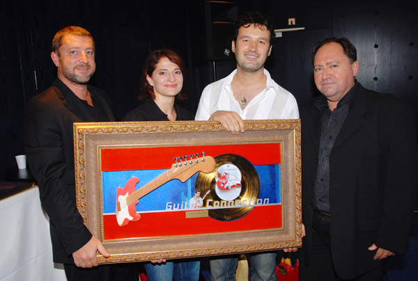 Jean-Pierre Danel on 2006.